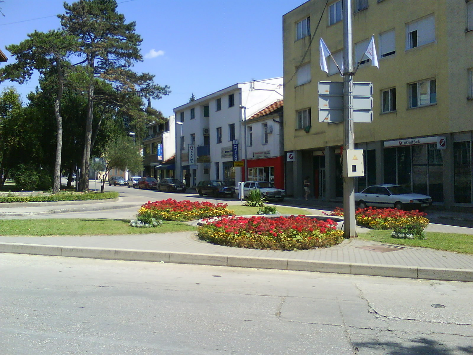 King Tomislav square in Ljubuški